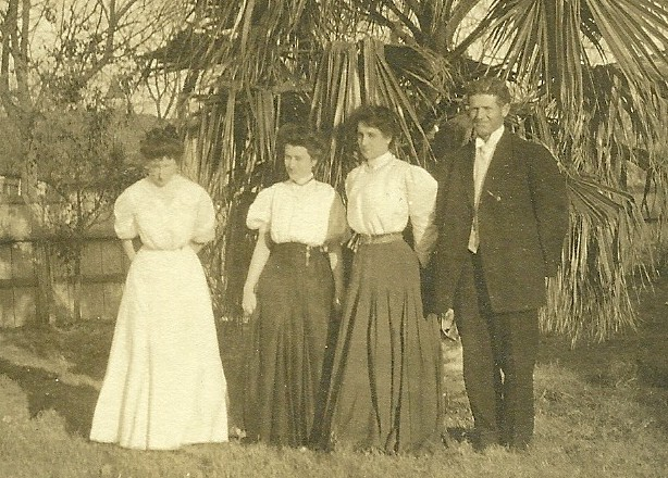 Miriam Nesbitt 1908